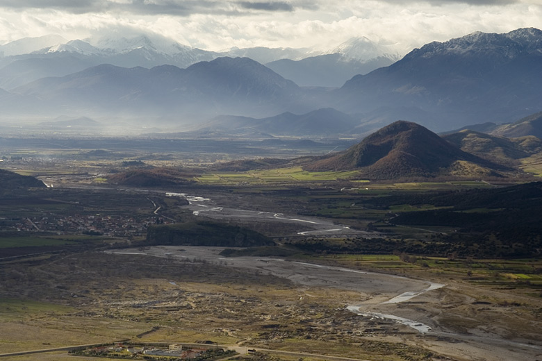 View on the plain of Thessaly including river Pinios, Greece